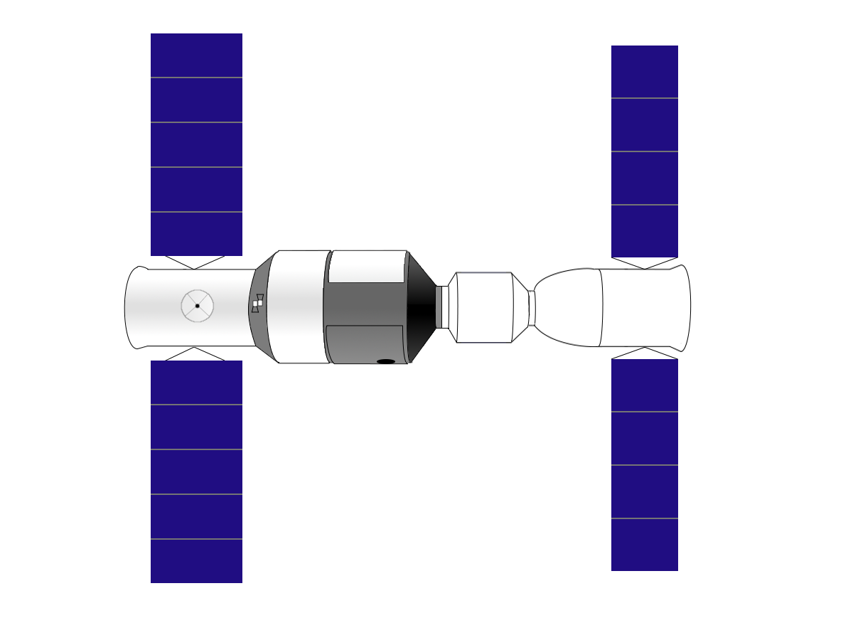 Drawing of Shenzhou docked to Tiangong-1. If you believe its inaccurate than start a topic in the discussion page. Drawing is based on this image